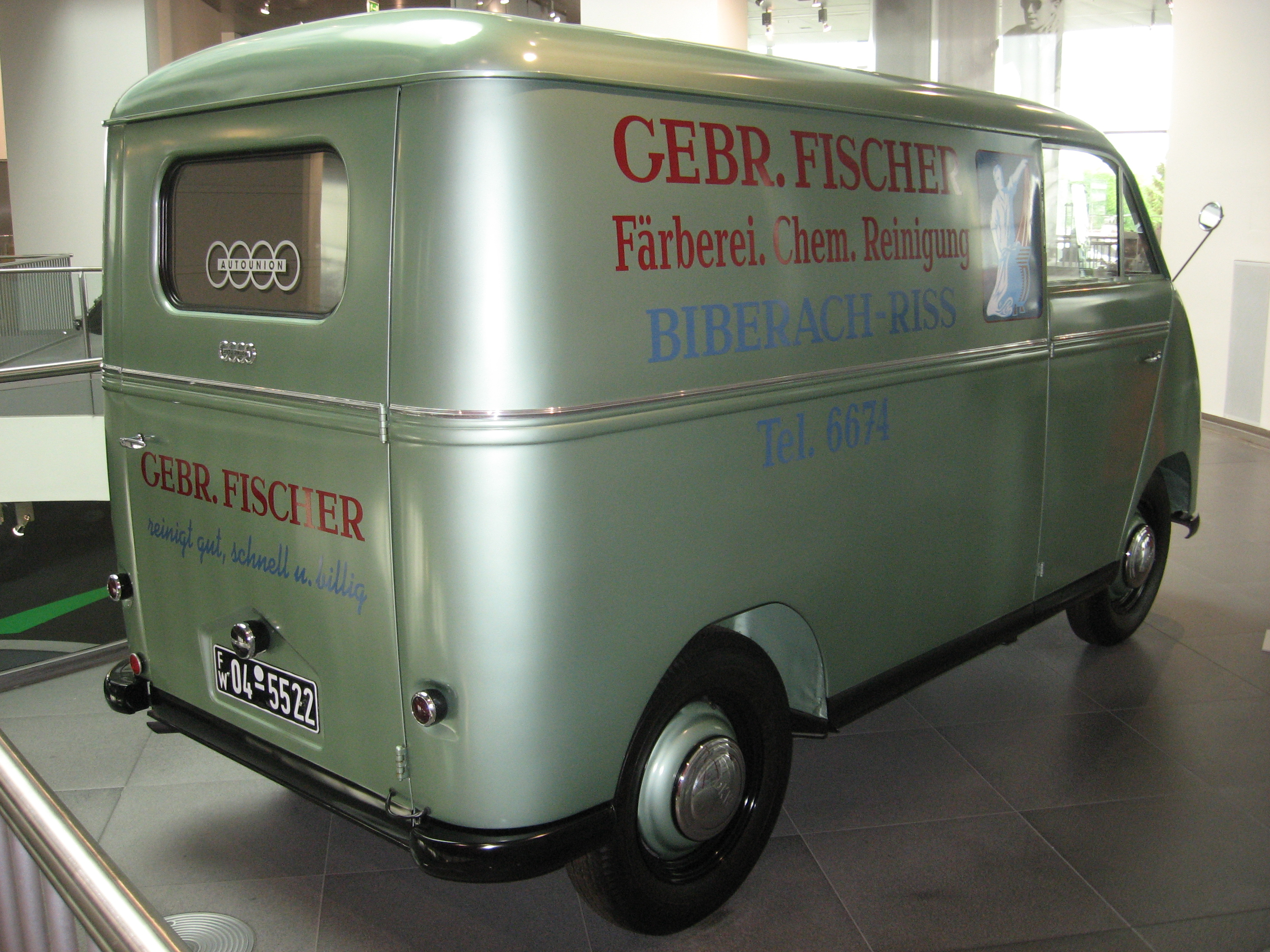 Subject: DKW F89L Schnellaster Author: Luc106 Date:June 13th, 2011 Place/Country: Audi Mobile Museum, Ingolstadt (Deutschland) I release all rights in the public domain. Licensing